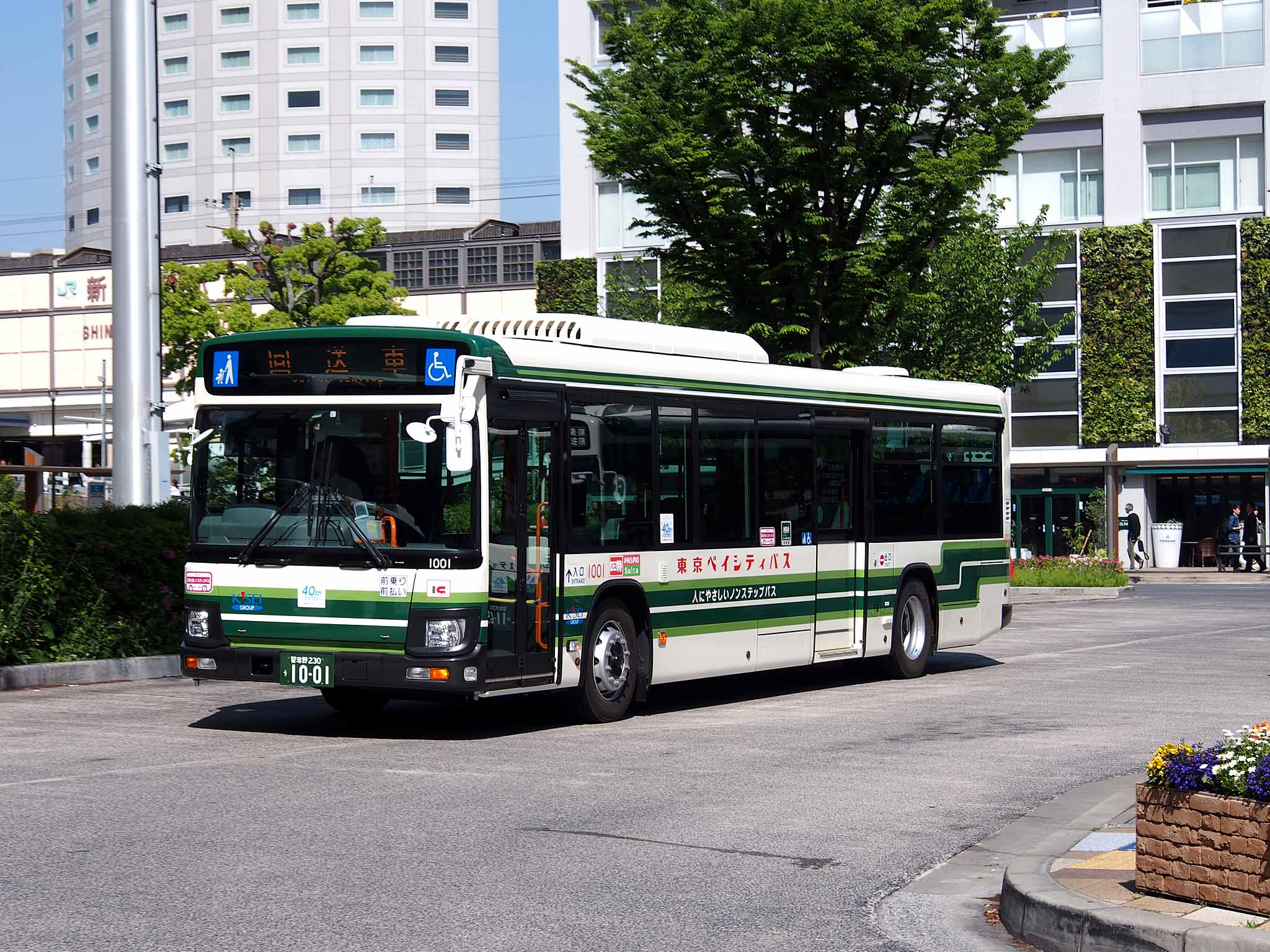 Fleet of Tokyo Bay City Kotsu, painted "Oriental Land Kotsu" color. Model: Isuzu Erga LV290 License plate: CBN230 U1001 Place: Shin-urayasu Station